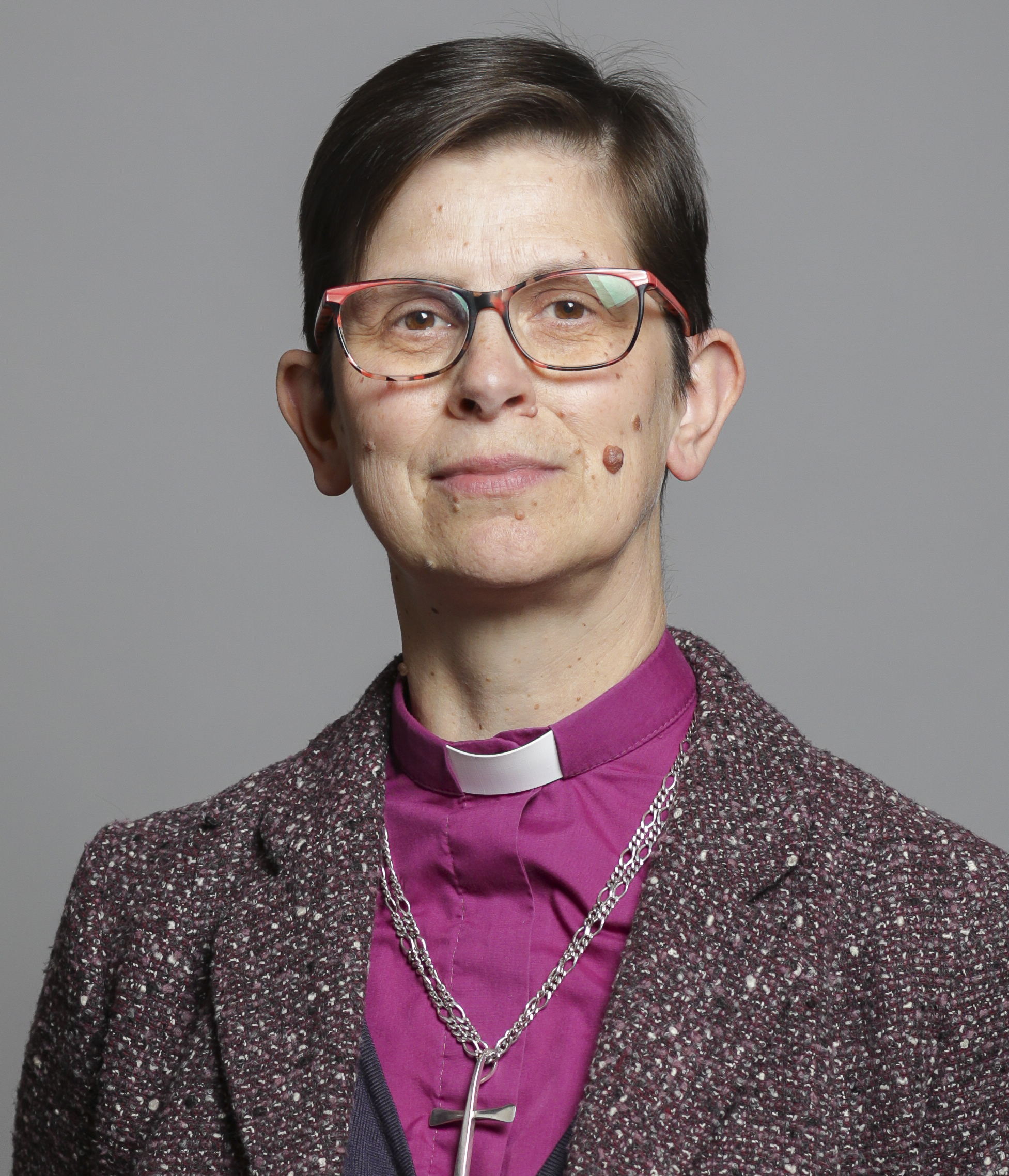 Official portrait of The Lord Bishop of Derby Full sized portrait of The Lord Bishop of Derby